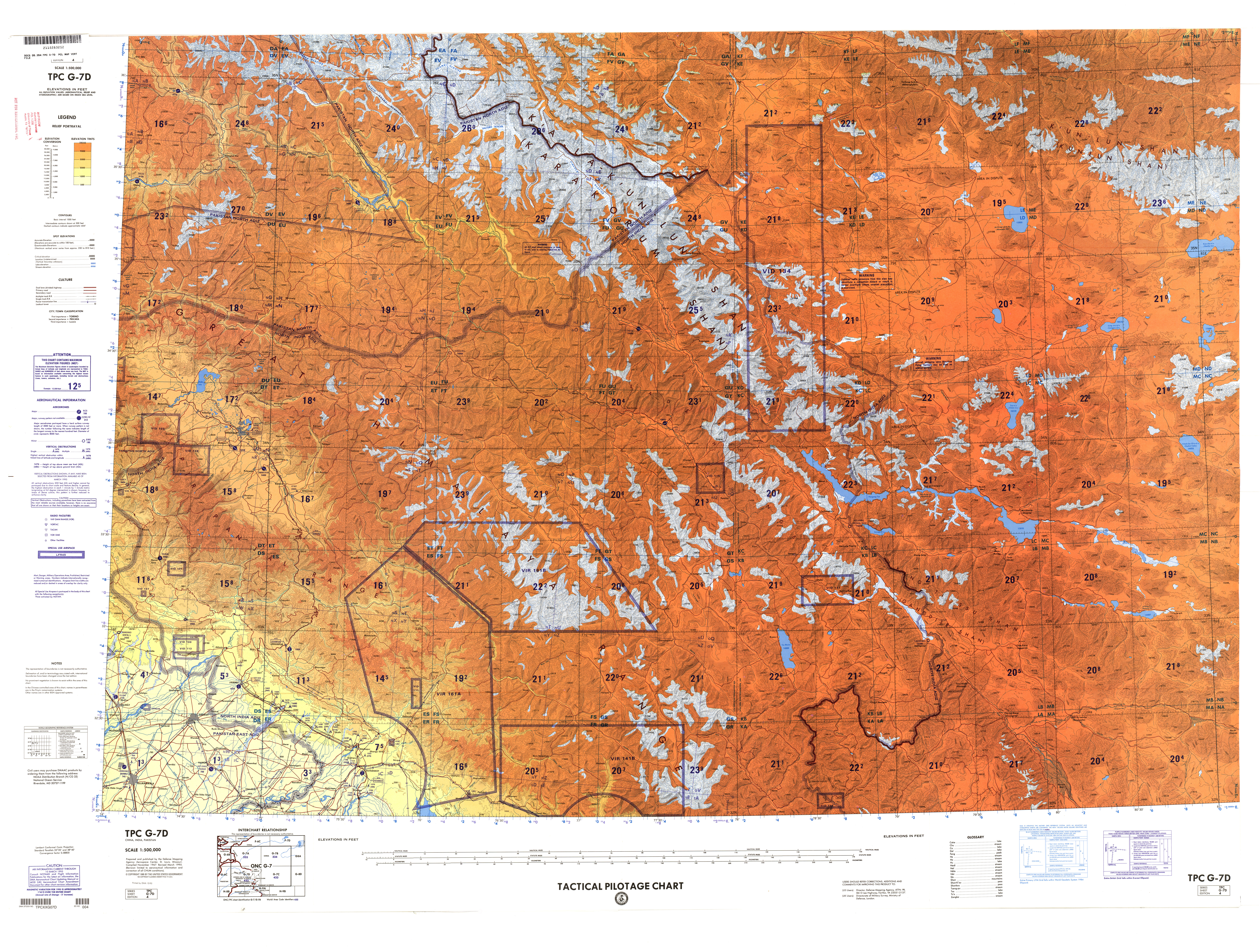 TPC G-7D China; India; Pakistan [Not for navigational use] U.S. Defense Mapping Agency Aerospace Center, compiled 1967, revised 1995 (29.4MB) Tactical Pilotage Chart Series - World